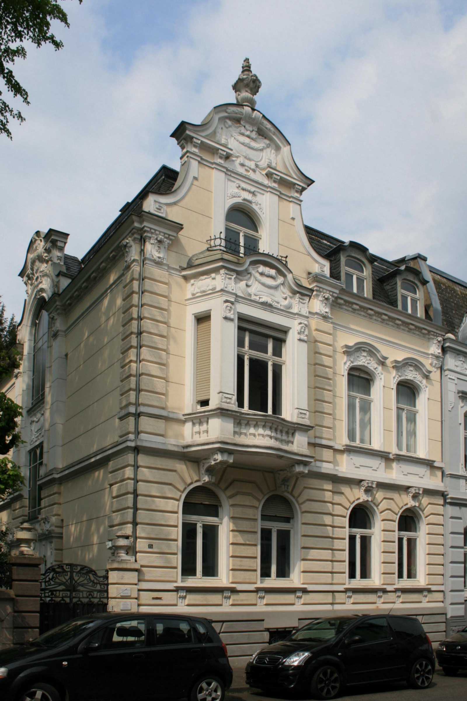 Cultural heritage monument No. H 088 in Mönchengladbach